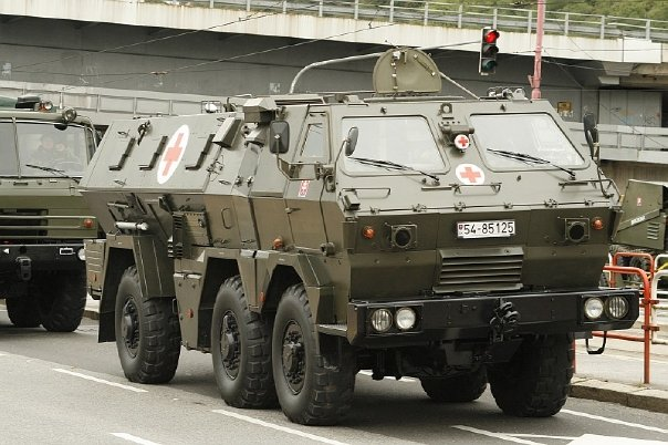 Slovakian military vehicle Tatrapan 6x6 in ambulance version.